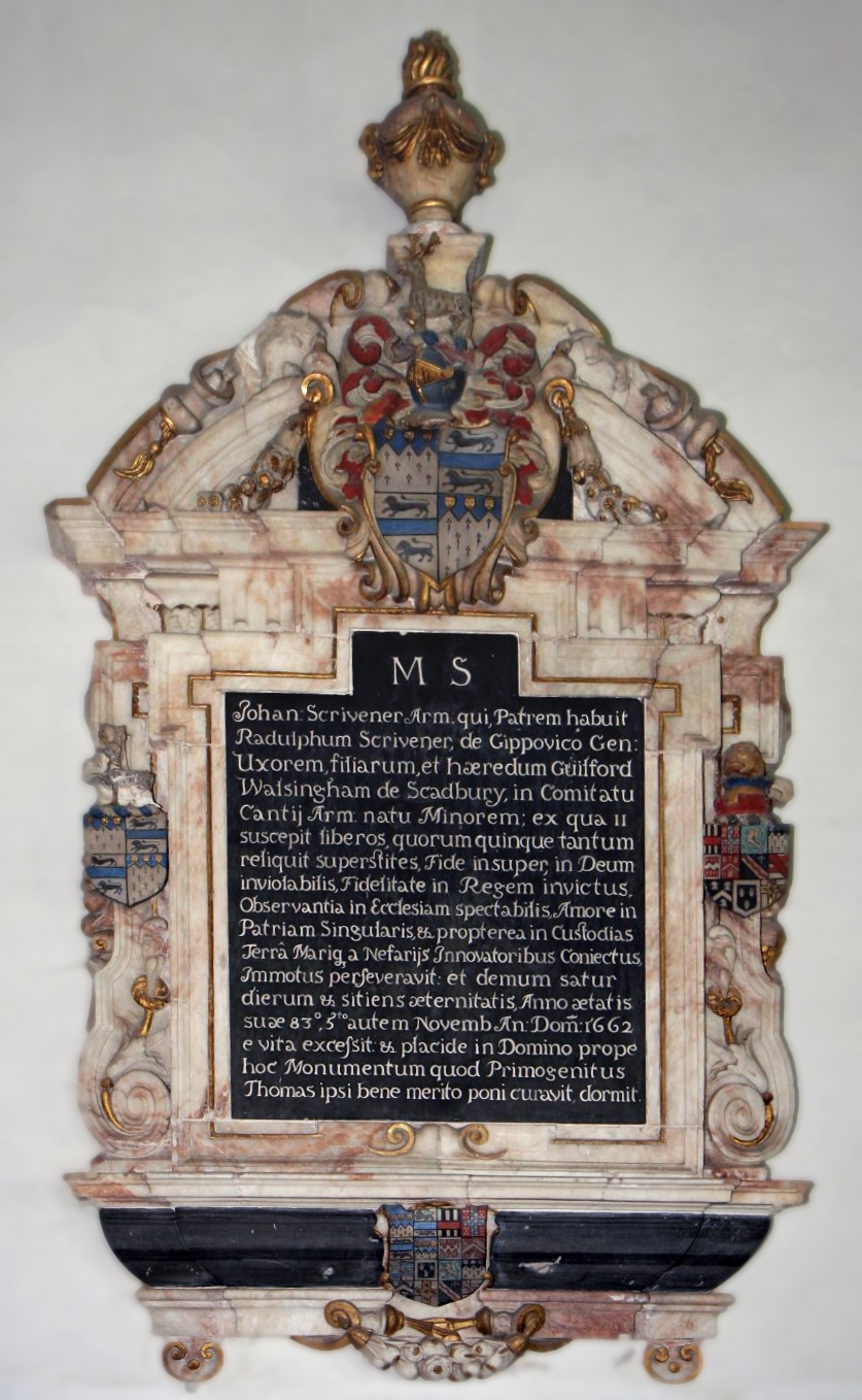 View of the monument to John Scrivener at St Peter's Church. Sibton, Suffolk, England. The Scrivener family has resided at Sibton Abbey nearby since the early 17th century. Image courtesy of Brokentaco, .